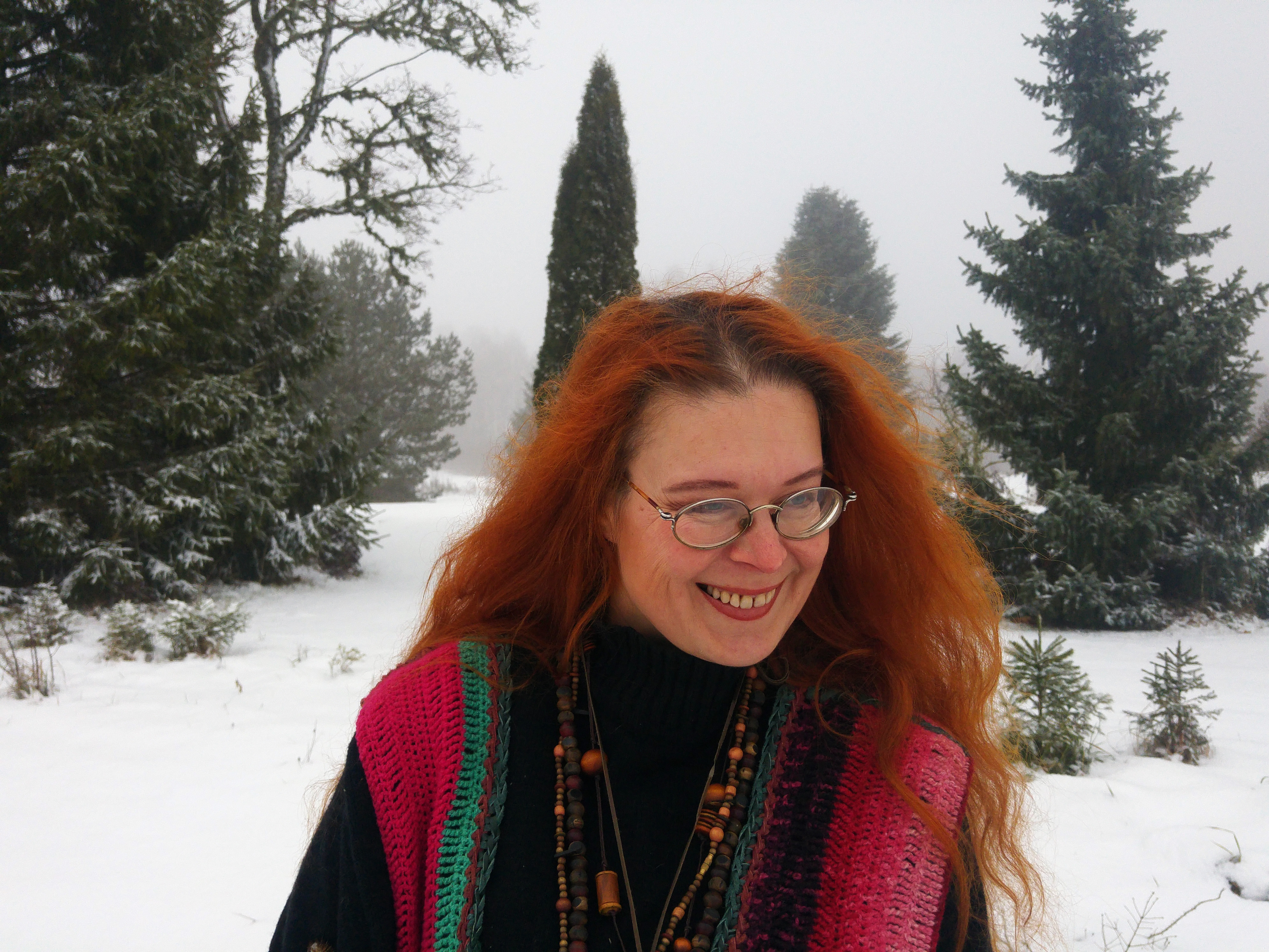 Estonian writer Aidi Vallik